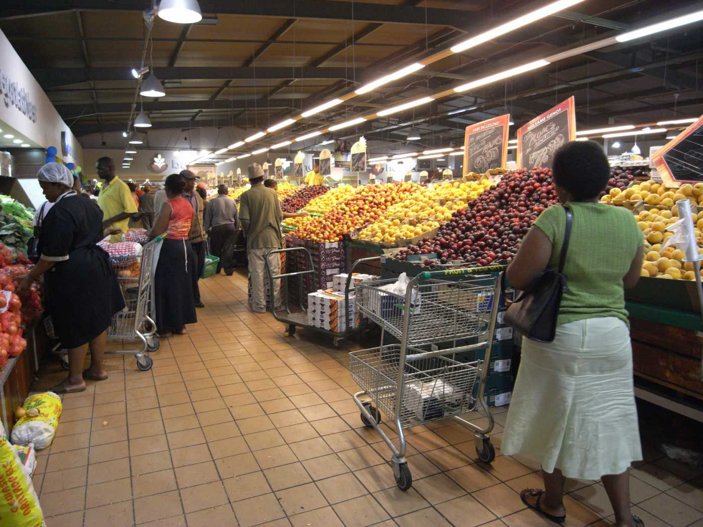 Fresh market of East London (Eastern Cape, RSA)